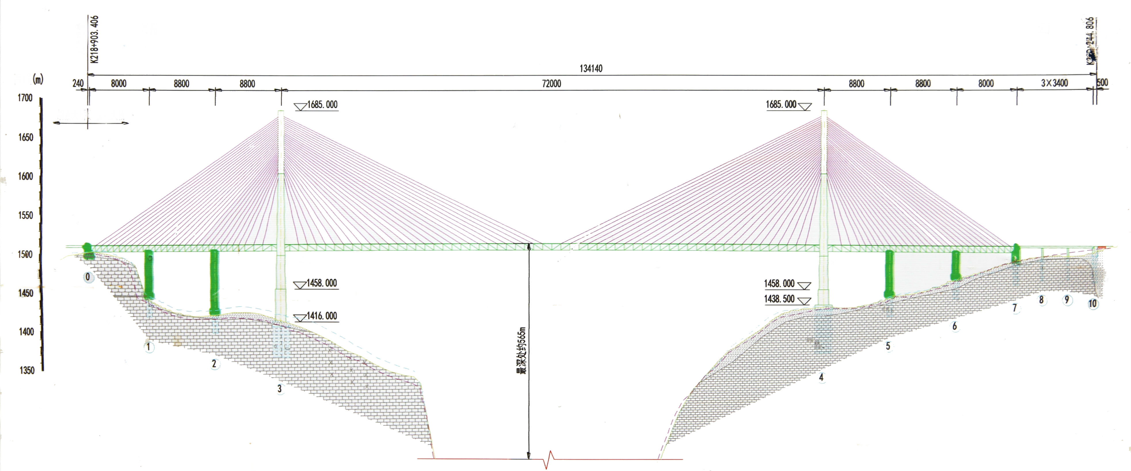 Beipanjiang Duge construction drawing at bridge construction site.